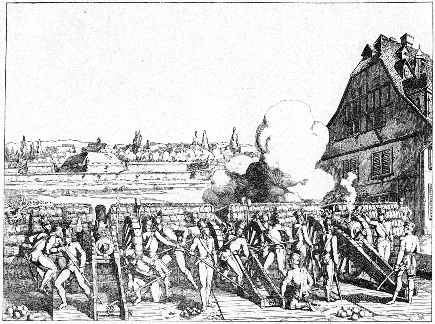 Zurich battery during the siege of the French fortress Huningue, 19–27 August 1815 (Year Book of the Artillery Association Zurich).